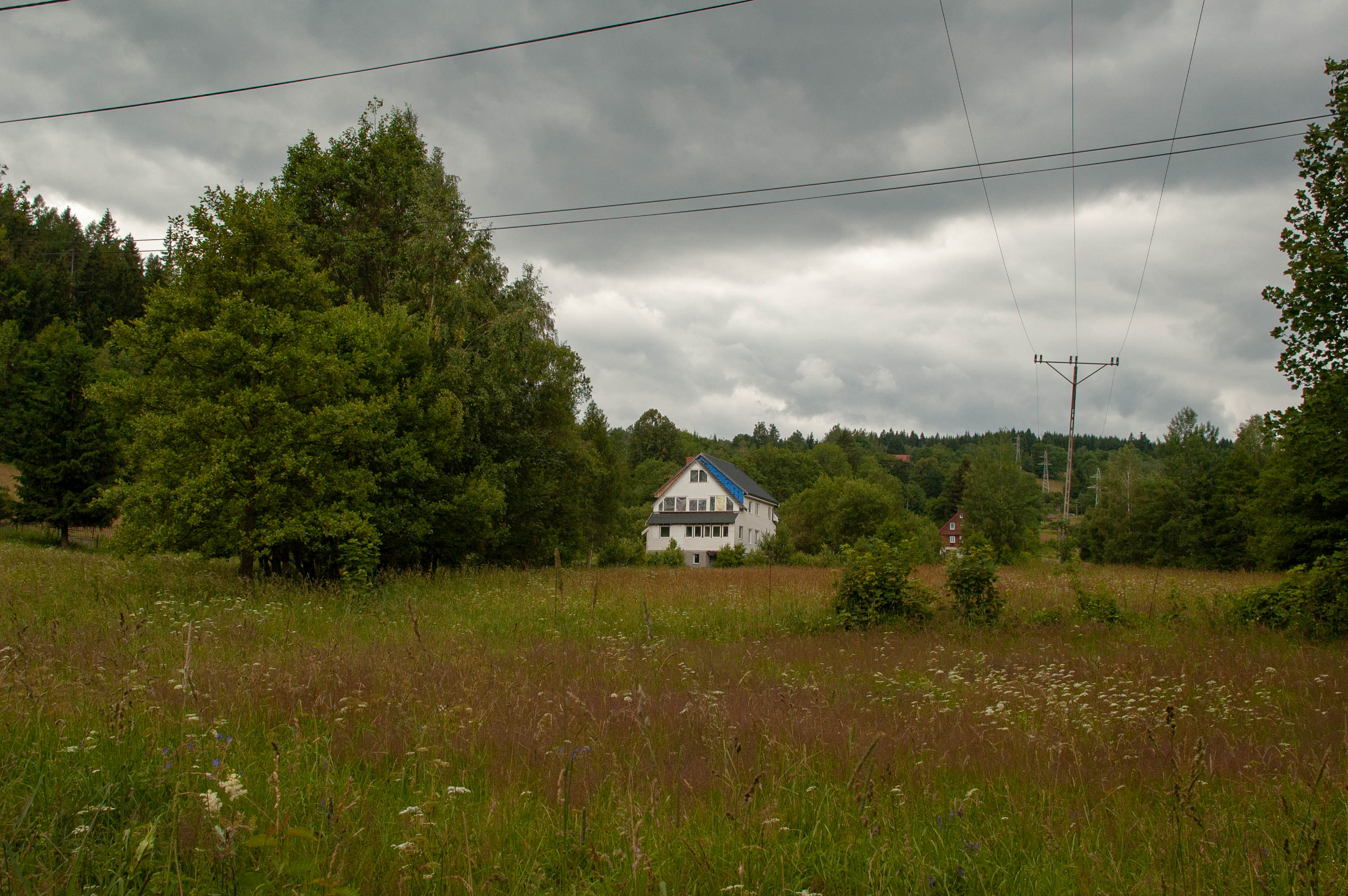 This photograph was created as a part of Wikiexpedition Lower Silesia, a project supported by Wikimedia Poland grant.